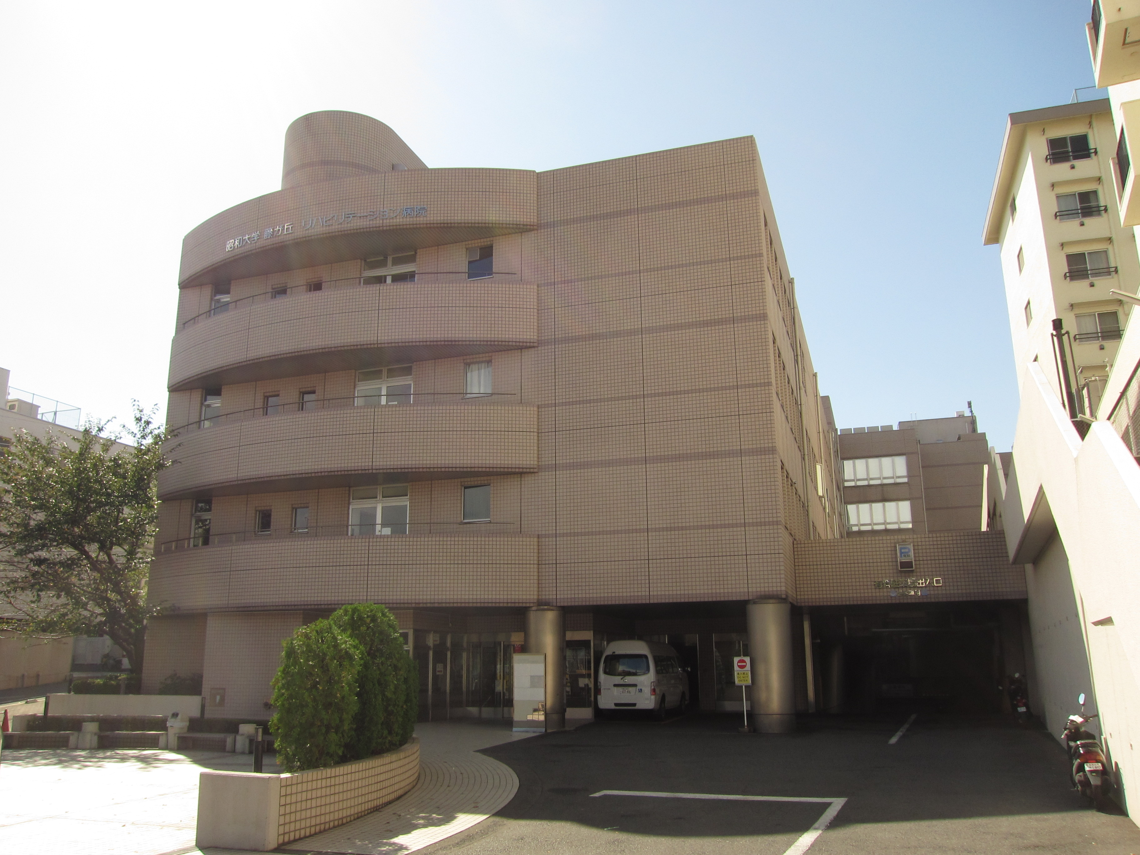 Showa University Fujigaoka Rehabilitation Hospital